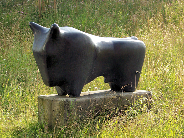 Sculpture De Stier in Emmen